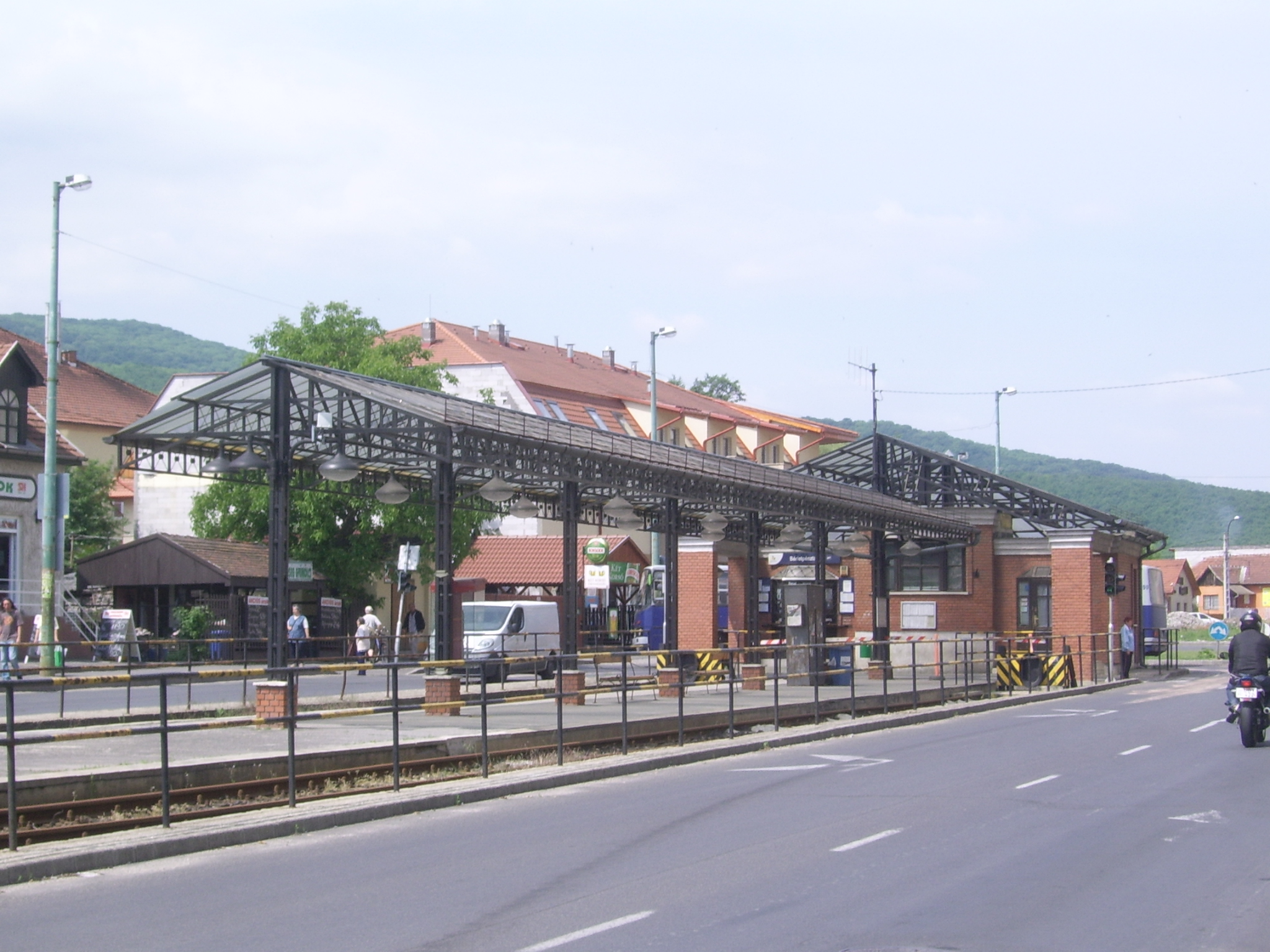 Diósgyőr tram terminus in Miskolc